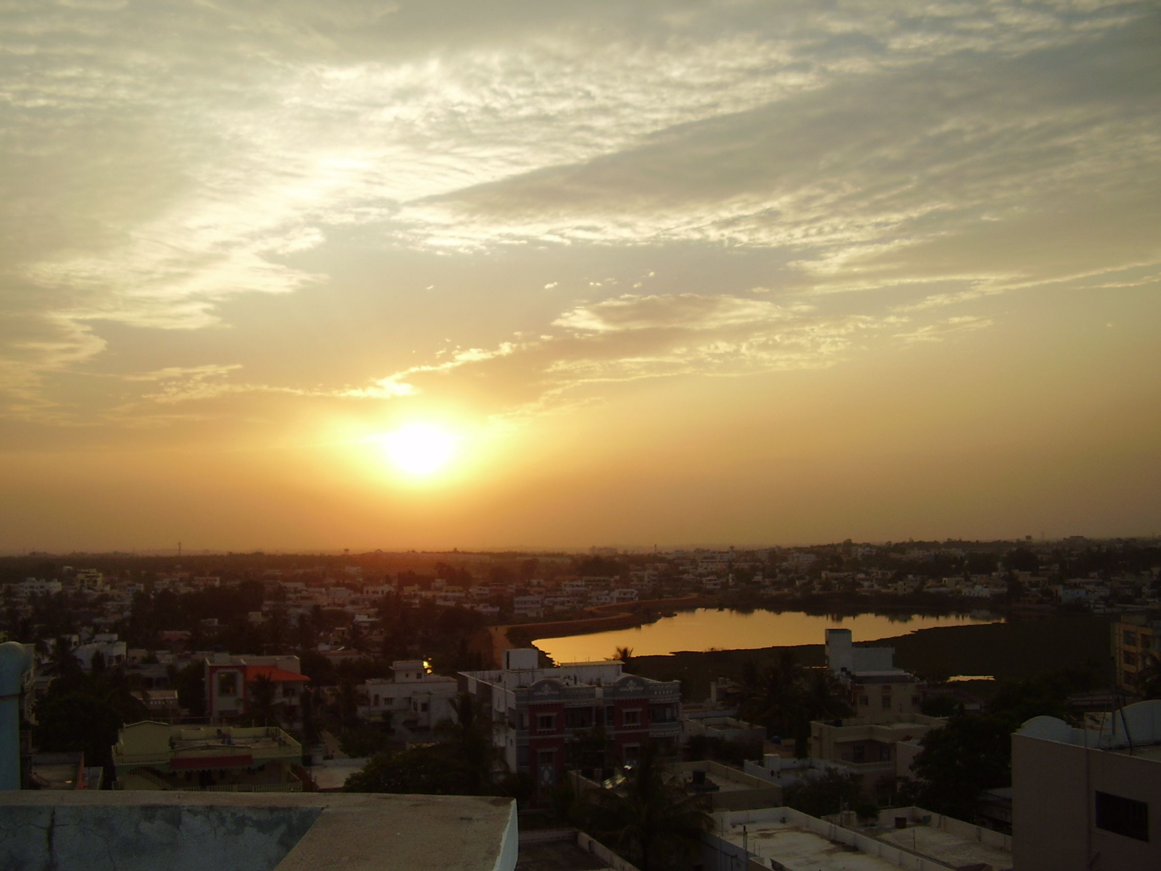 Due to rapid urbanization , we have to take enough measures to contain rain water by harvesting ,recharging tools and taking good care of lake bodies.